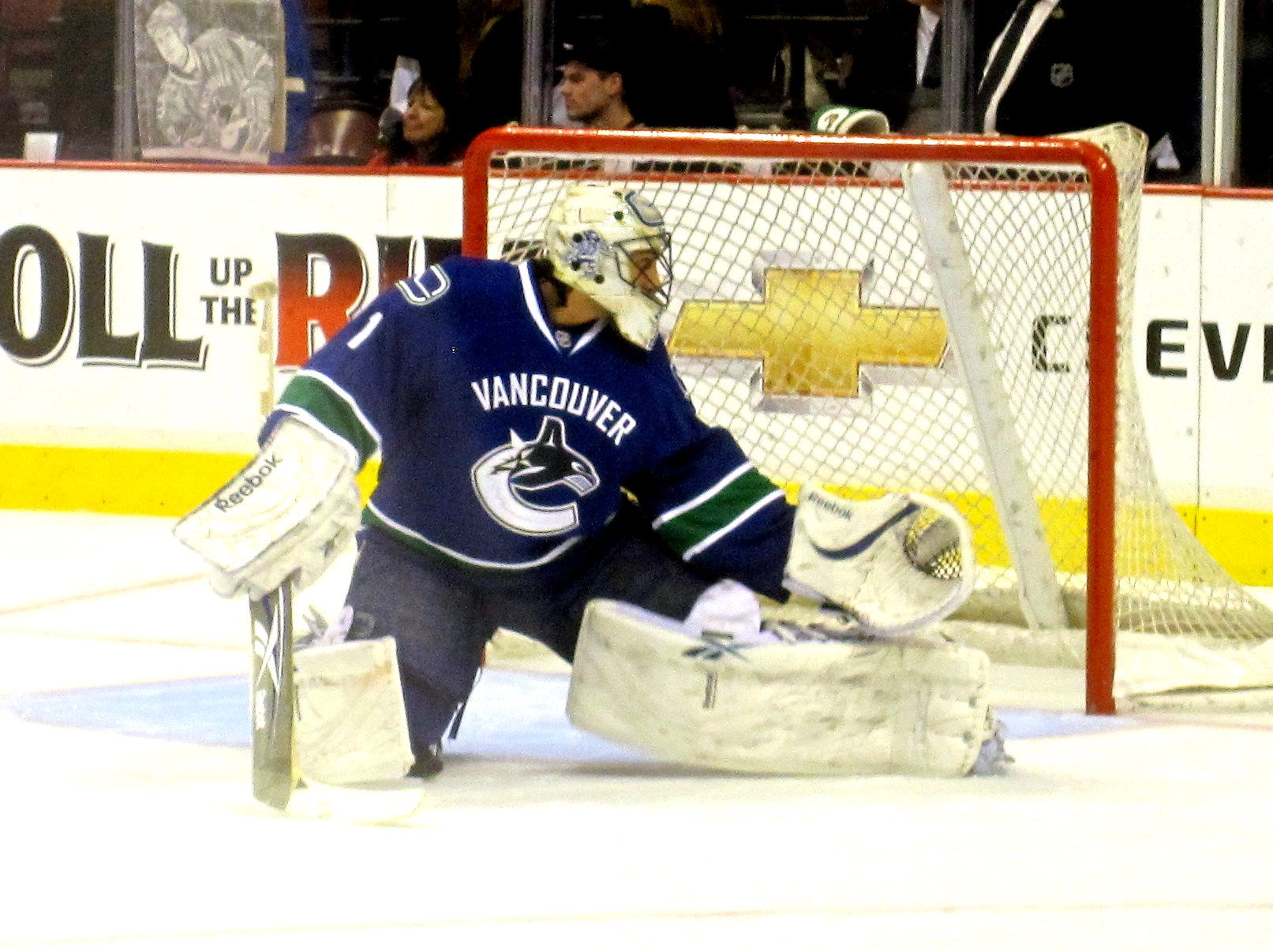 Vancouver Canucks goaltender Roberto Luongo during a game against the New York Islanders on March 16, 2010, in Vancouver.